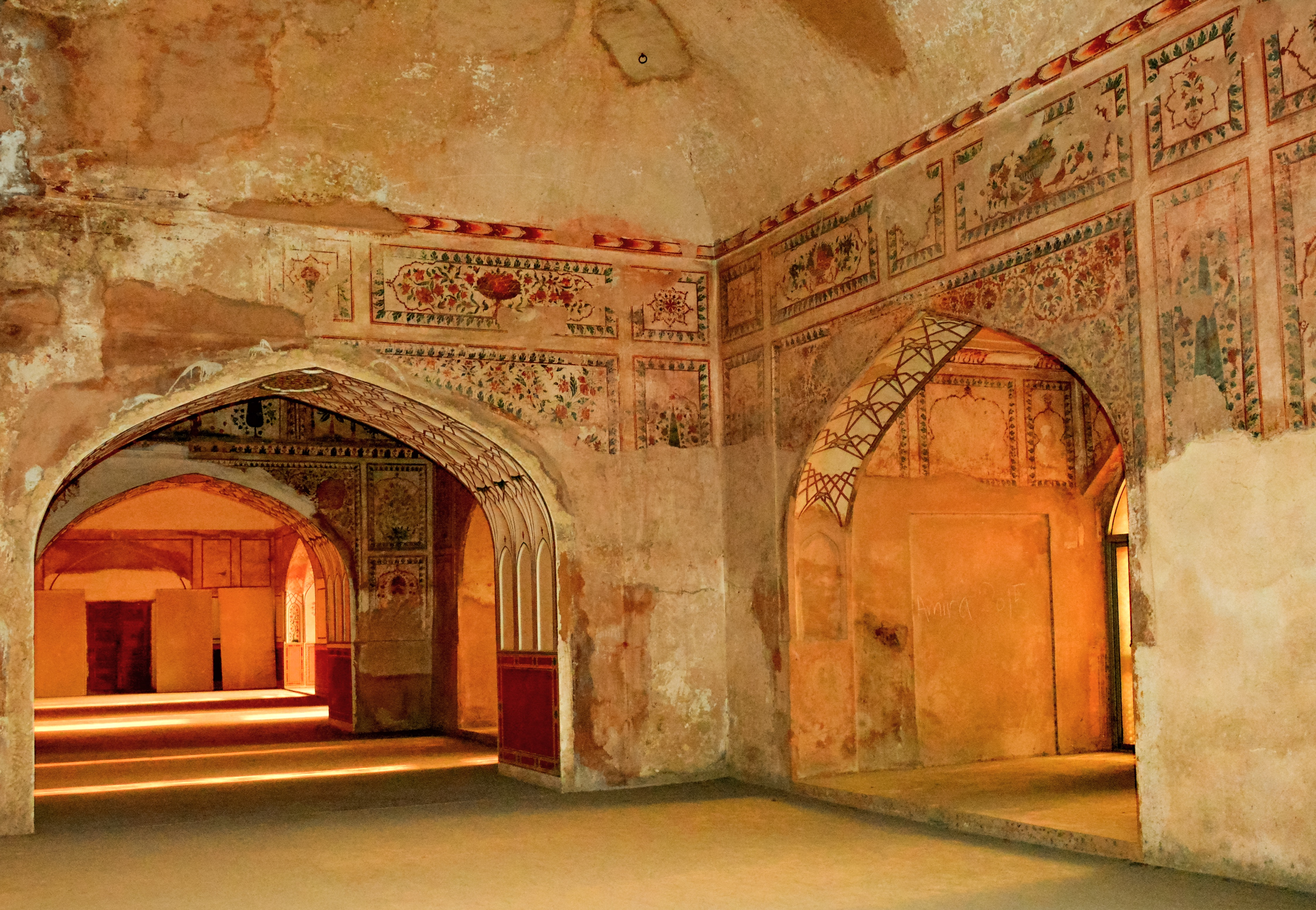 Summer Palace in Lahore Fort complex, view of the palace showing wall decor with fresco This is a photo of a monument in Pakistan identified as the PB-67